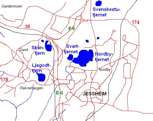 Grytehullsjøer i Ullensaker kommune. Ice-pot seas created by the weight of icebergs in the last Glacial. Ullensaker, Norway.